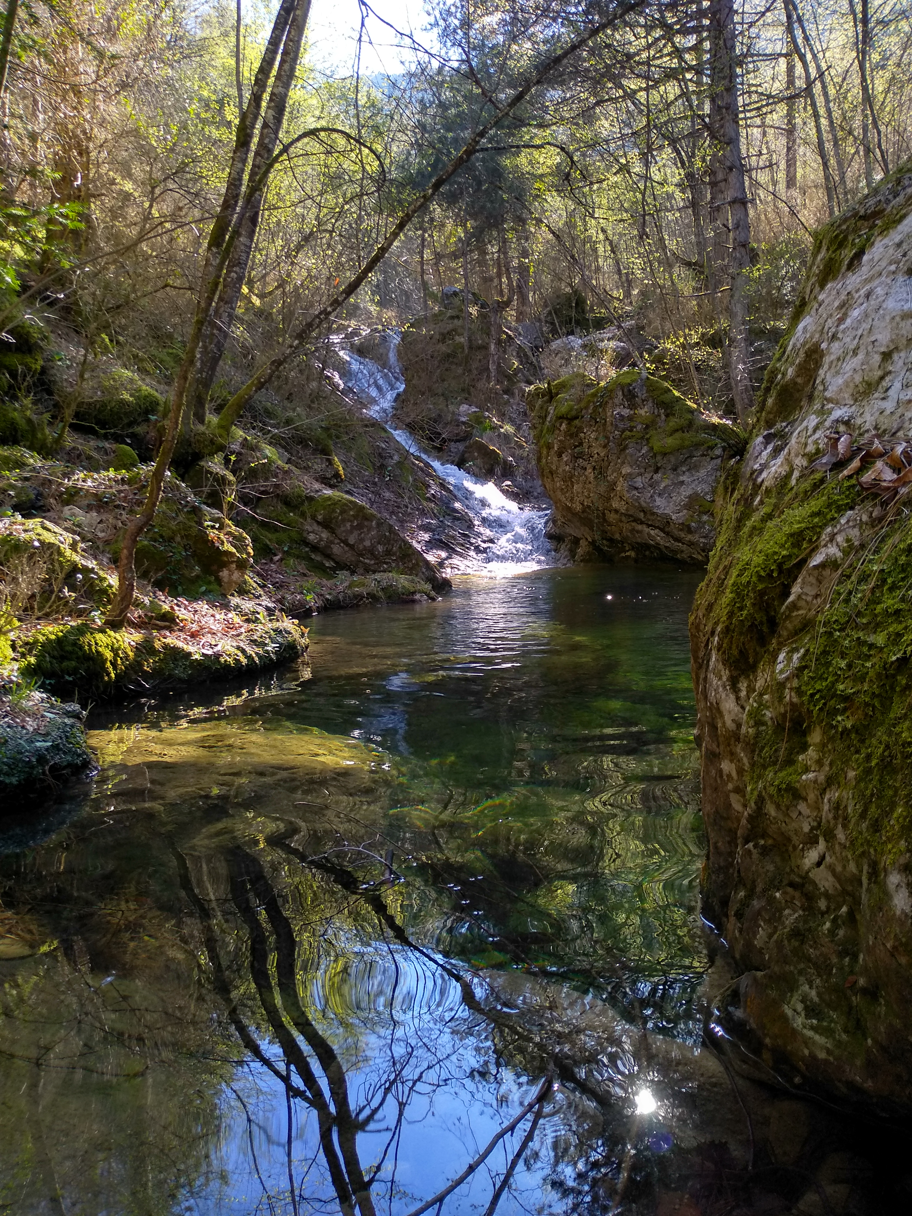 This is a photography of Natura 2000 protected area with ID GR1250001